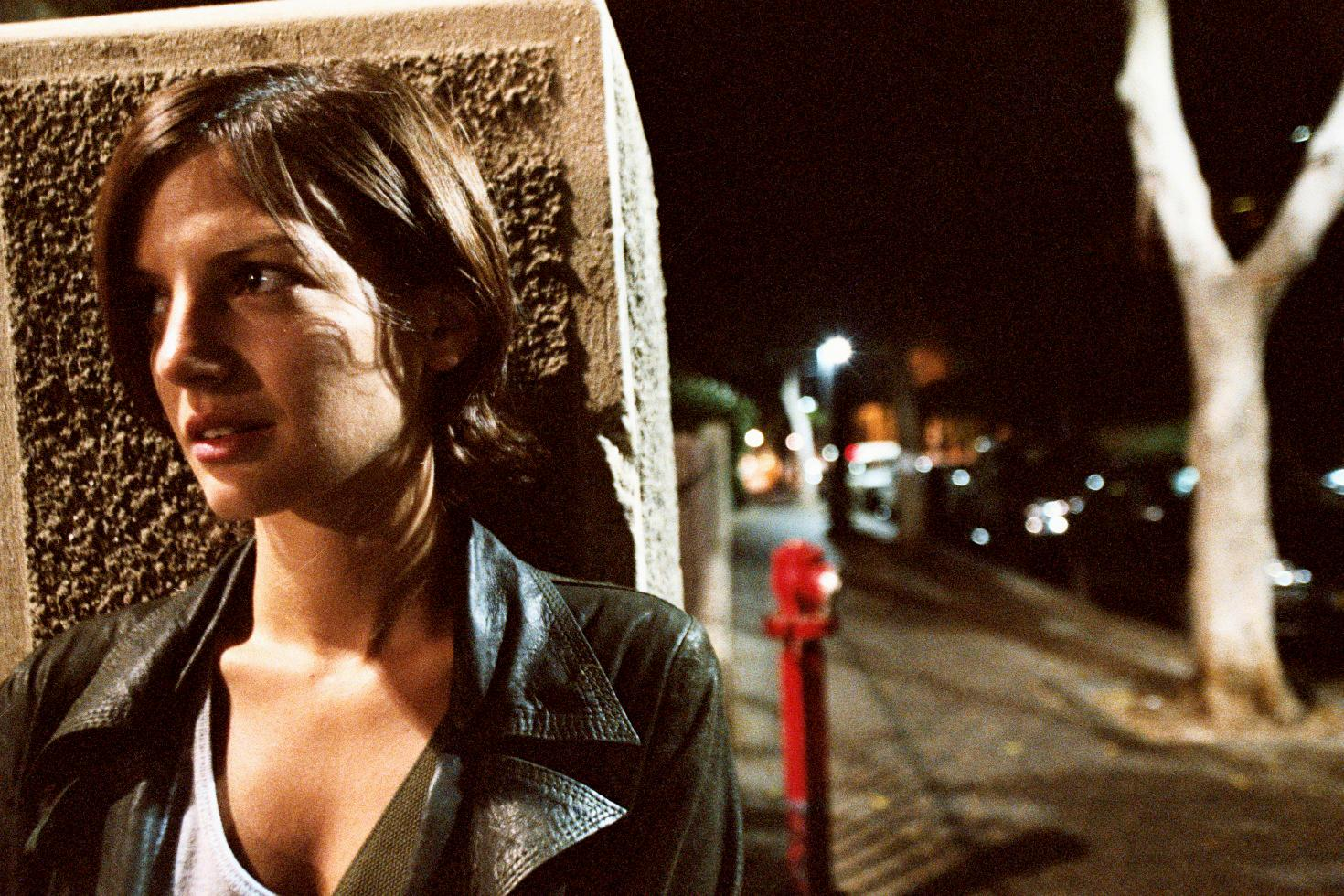 Frozen Days ("Yamim Kfuim") publicity still